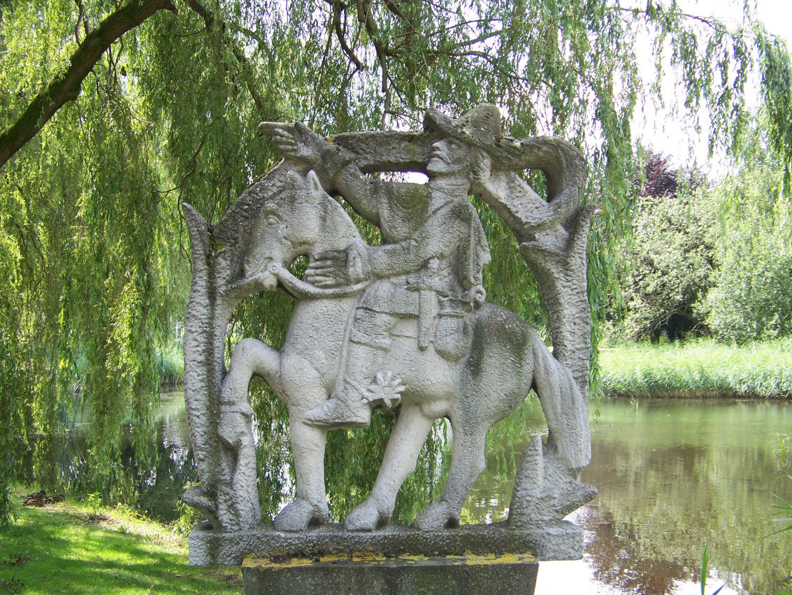 Willem van Duivenvoorde by Niel Steenbergen. In Oosterhout, North Brabant (Netherlands).